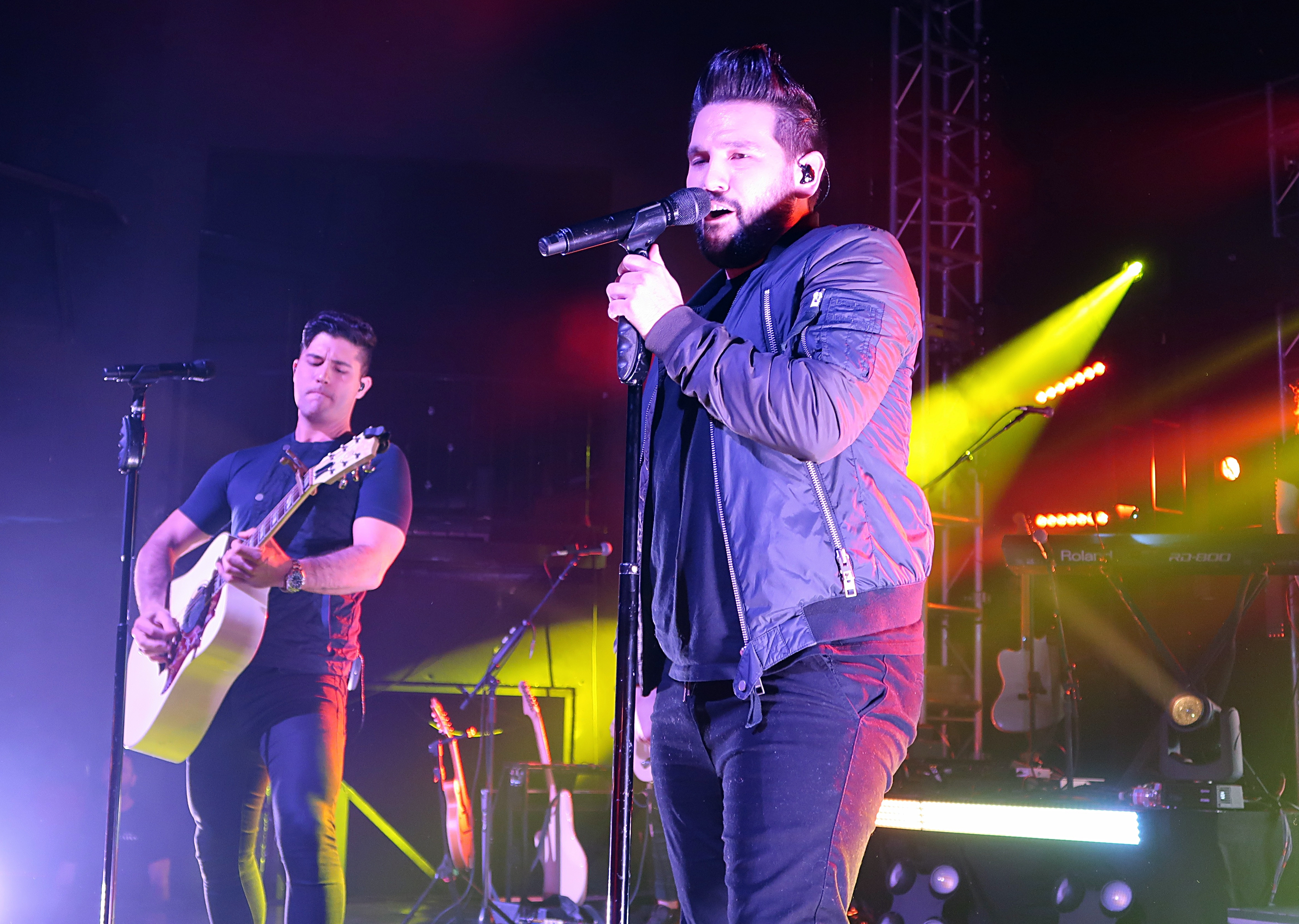 Dan + Shay performing at the New Daisy Theatre in Memphis, Tennessee, February 2017